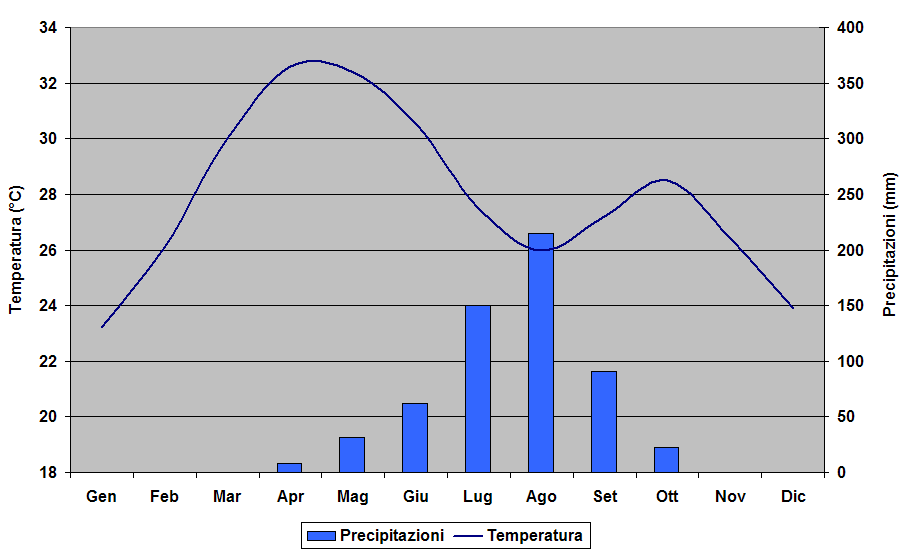 Climate diagram of N'Djamena, Chad